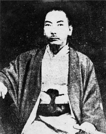 King Shō Tai, 1843-1901